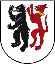 Coat of arms of Hundwil, Canton of Appenzell Ausserrhoden, Switzerland